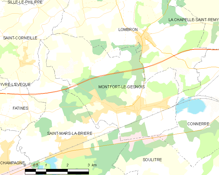 Map of French municipality